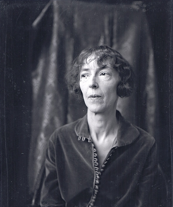 taken by Melvin Ormond Hammond on December 18, 1927. from Archives of Ontario. Public domain since author died in 1934 and image was taken before 1949.